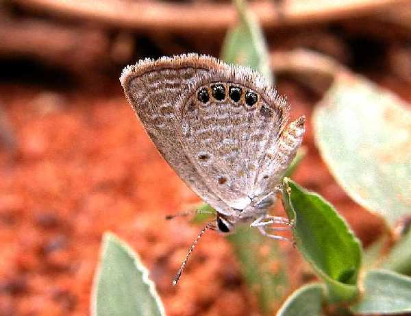 Grass Jewel (Freyeria trochylus)